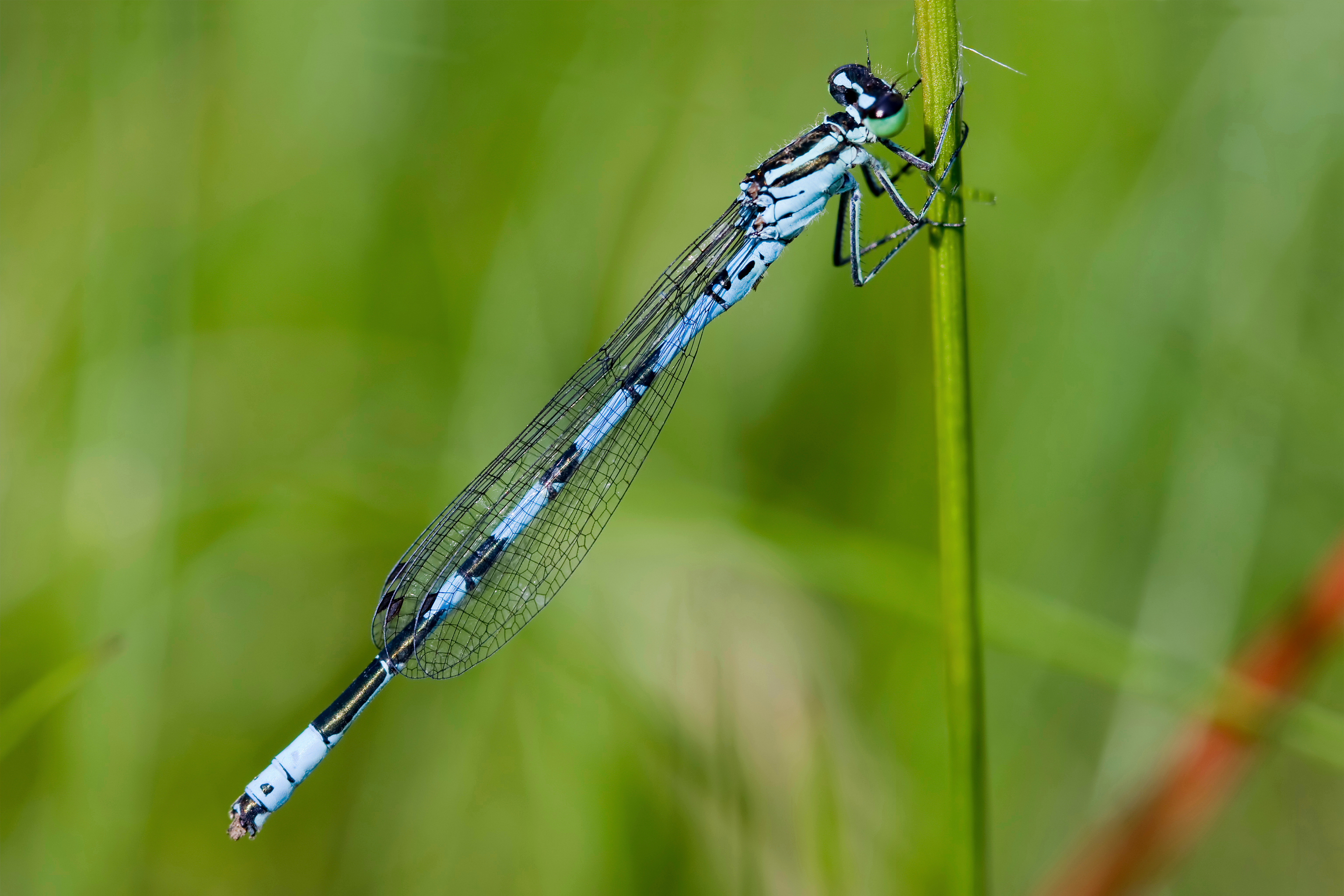 A male of the Northern Damselfly (Coenagrion hastulatum) in the Ahlenmoor, a peatland in northern Lower Saxony, Germany.